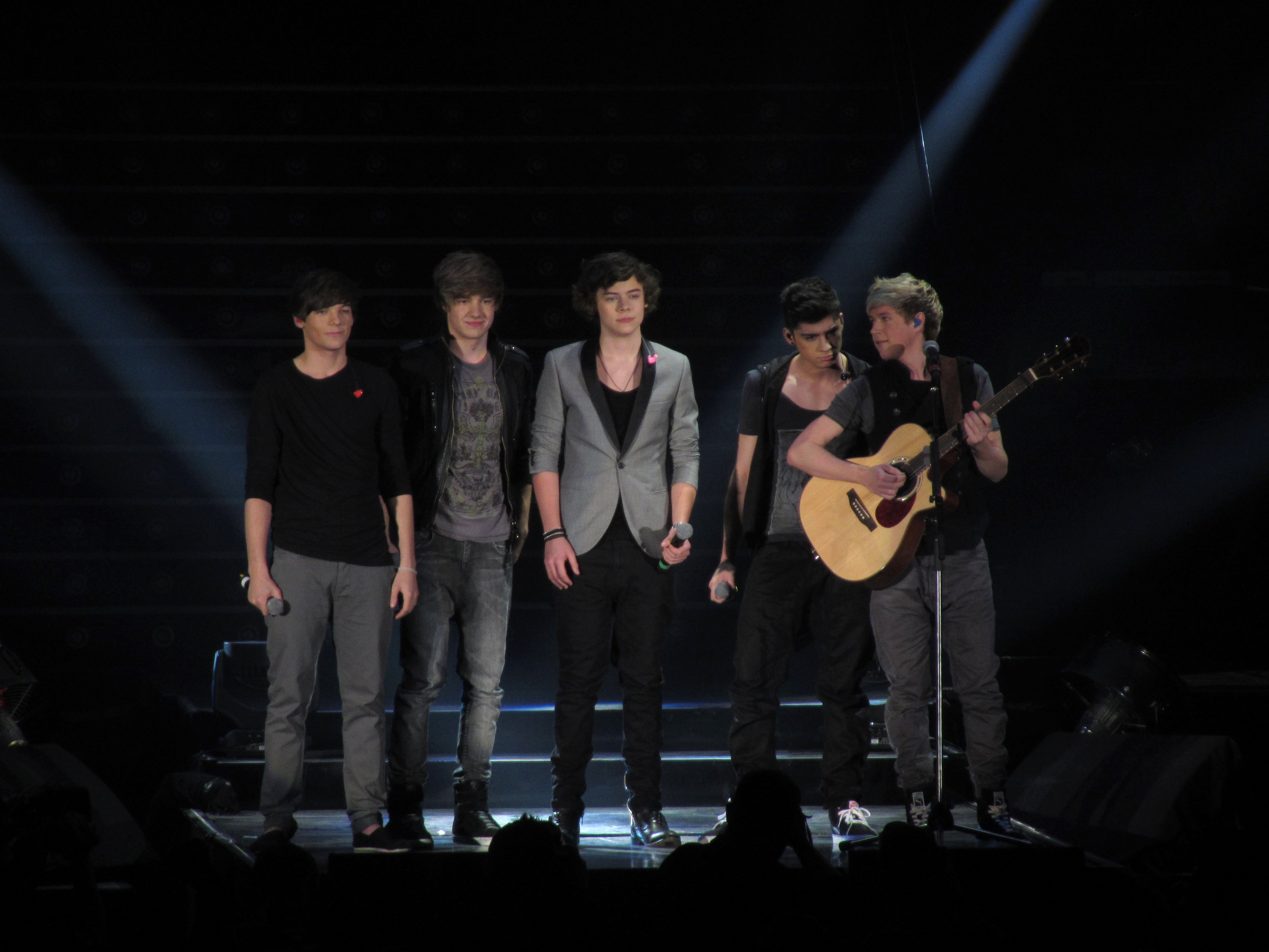 One Direction, The X Factor Live, SECC, Glasgow, 1 April 2011